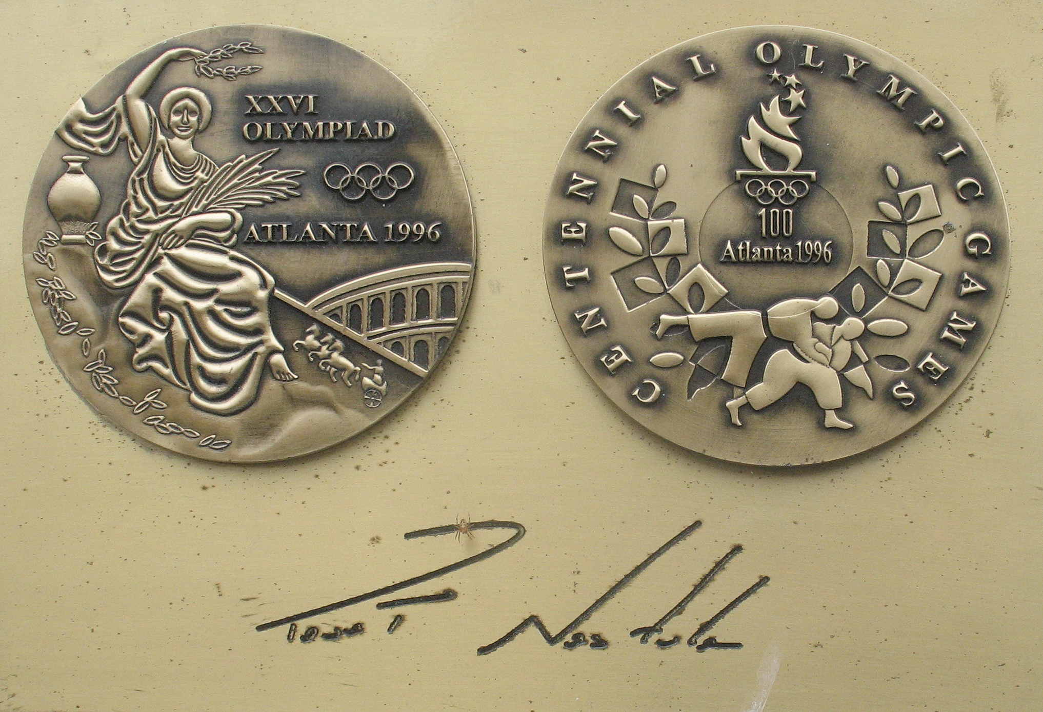 Paweł Nastula medal & autograph in Avenue of Sport Stars Dziwnów.